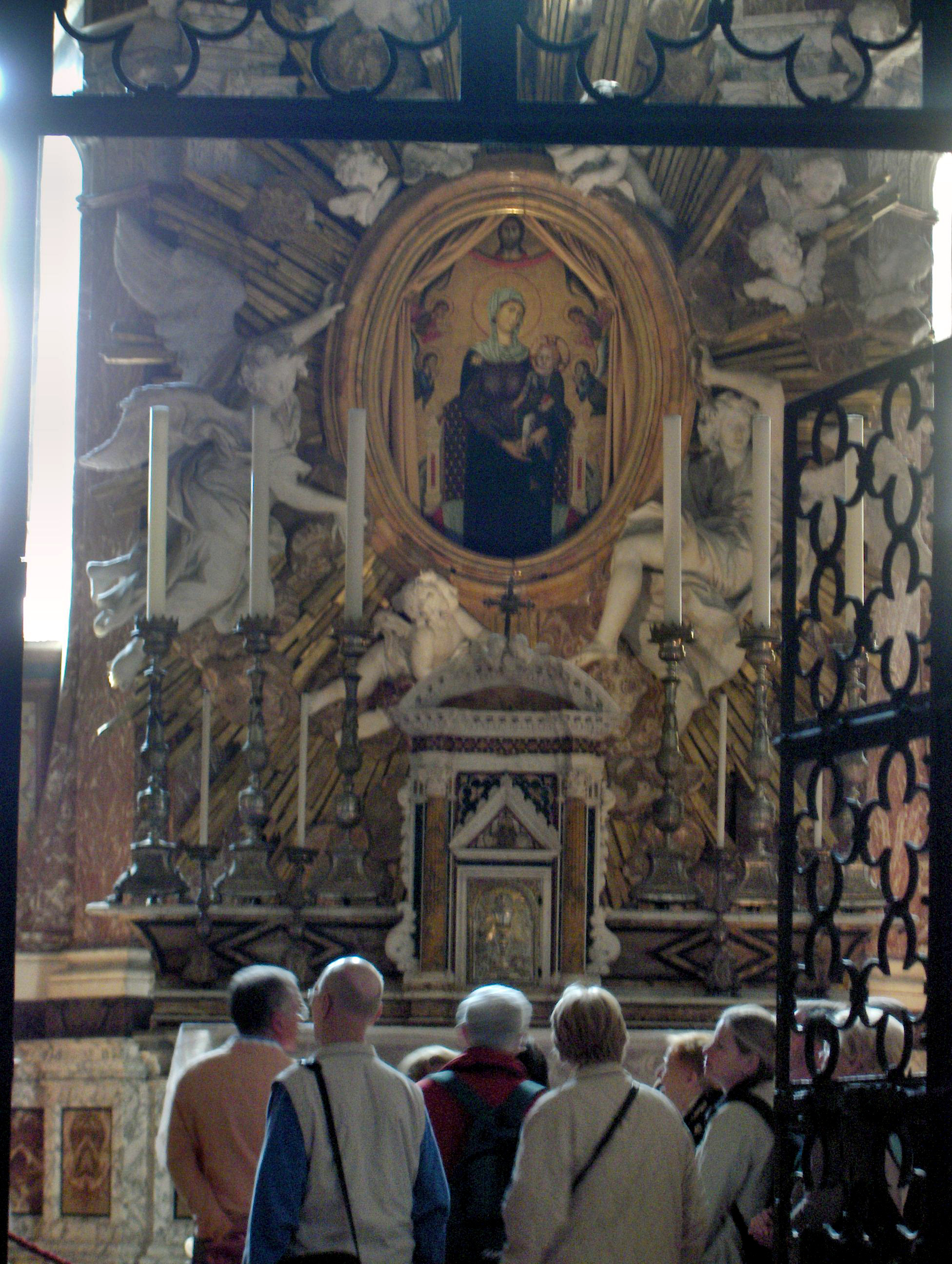 Baroque altar (by Bernardino Cametti, 1715); Madonna of San Brizio (late 13th c.) of the San Brizio Chapel, Cathedral of Orvieto, Italy